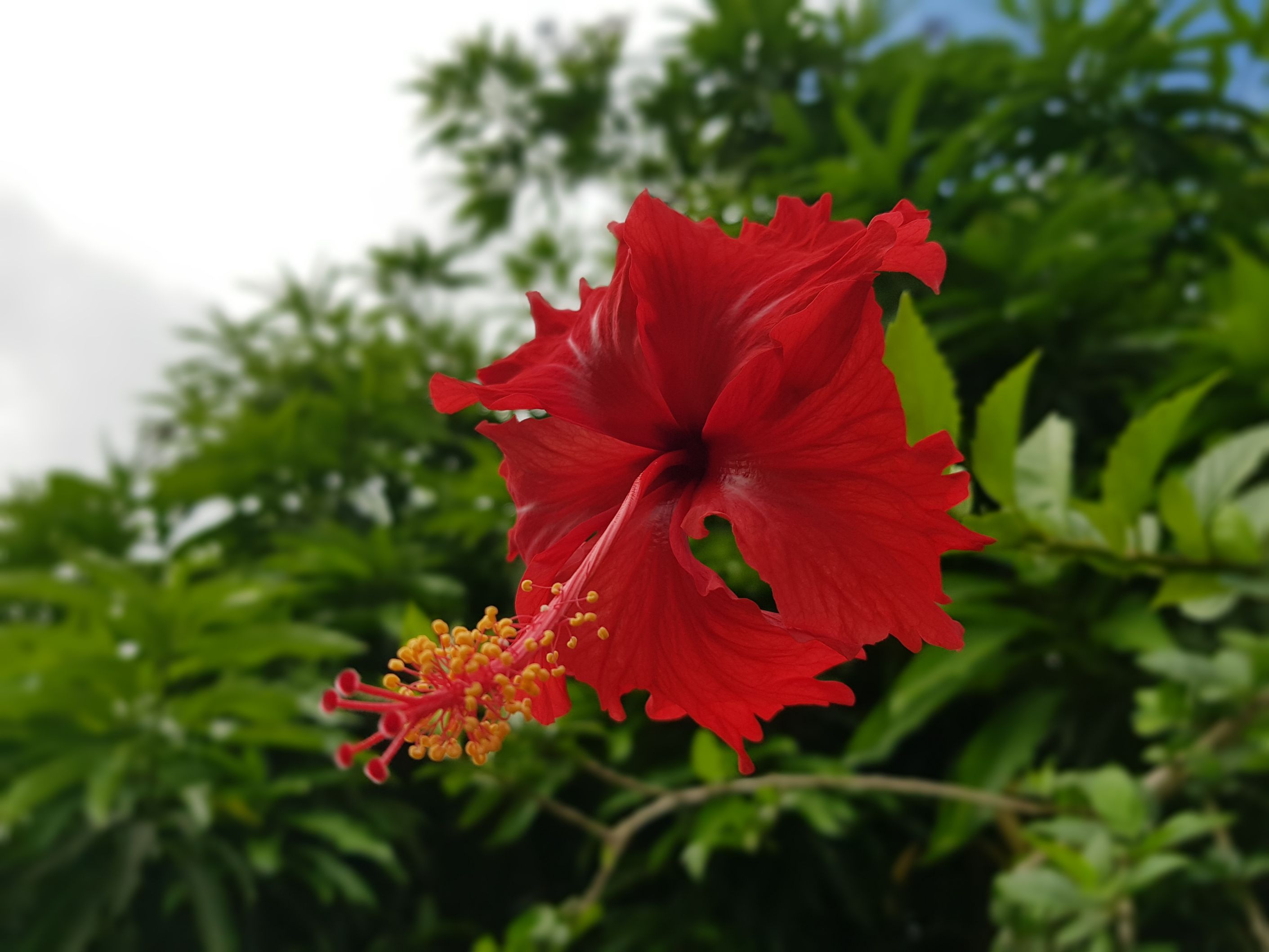 flower